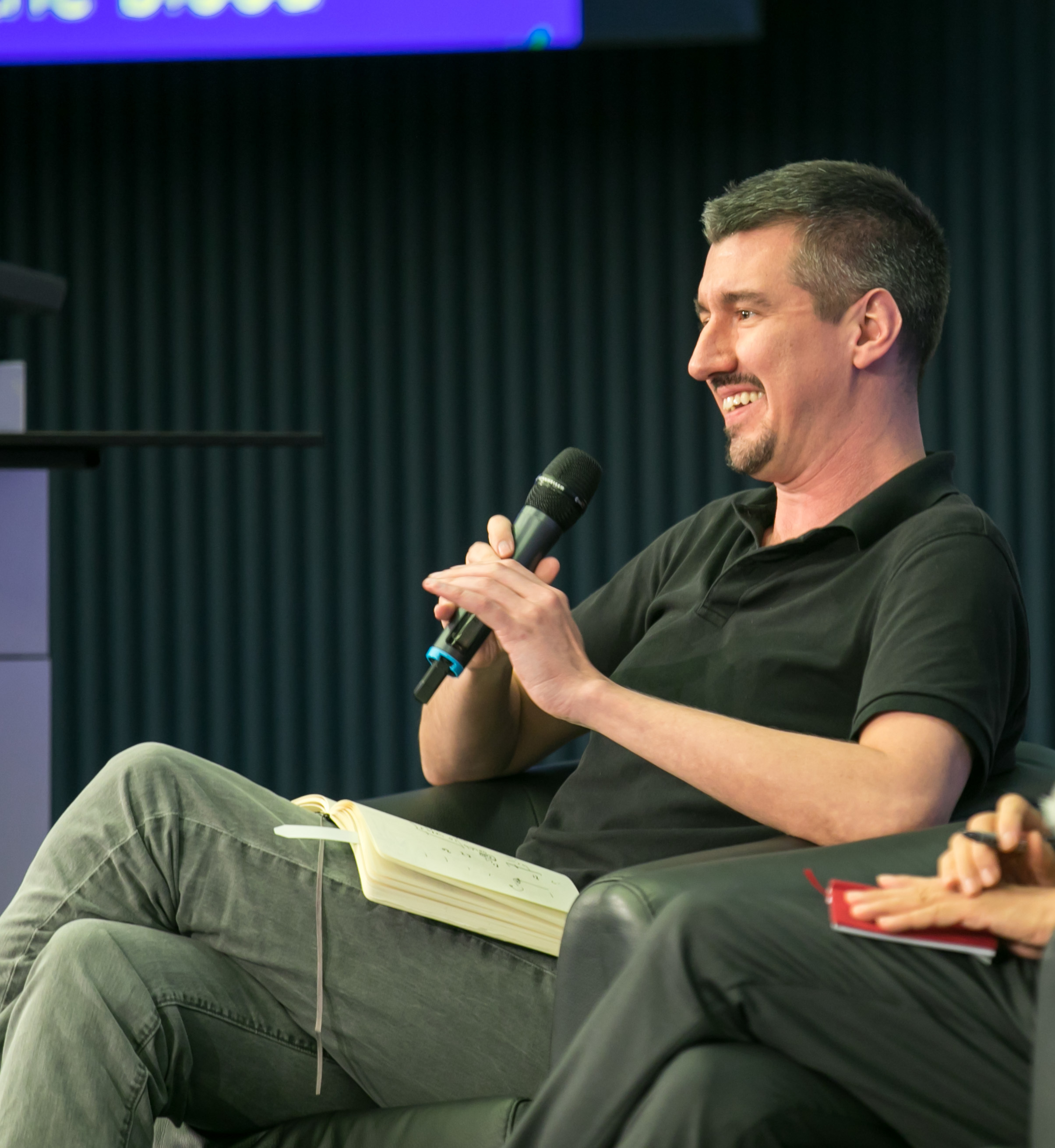 Chris Fabian, co-founder of GIGA, and co-founder of UNICEF Innovation, speaks about connectivity and data fairness and equity at the ITU's AI summit in Geneva.